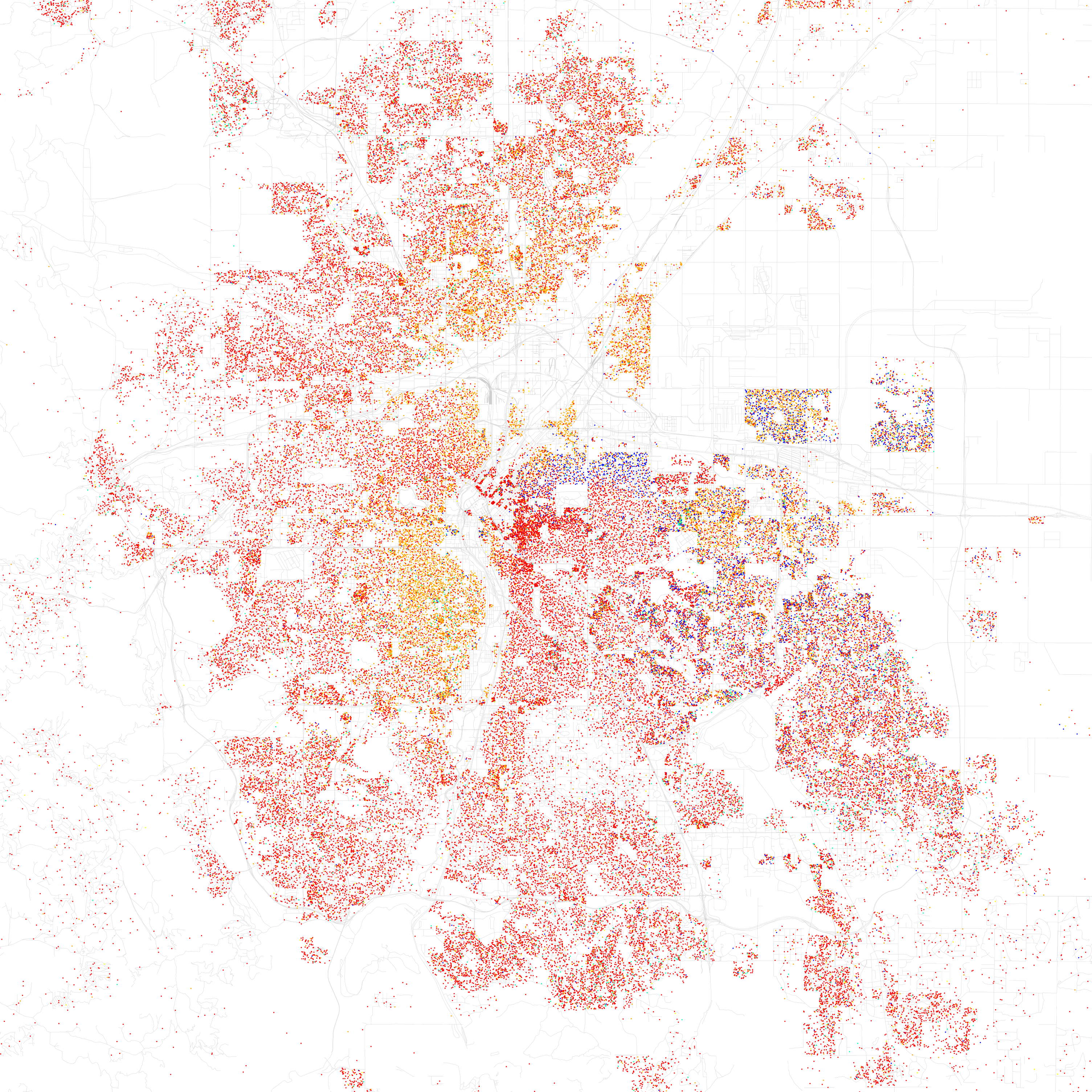 Maps of racial and ethnic divisions in US cities, inspired by Bill Rankin's map of Chicago, updated for Census 2010. Red is White, Blue is Black, Green is Asian, Orange is Hispanic, Yellow is Other, and each dot is 25 residents. Data from Census 2010. Base map © OpenStreetMap, CC-BY-SA